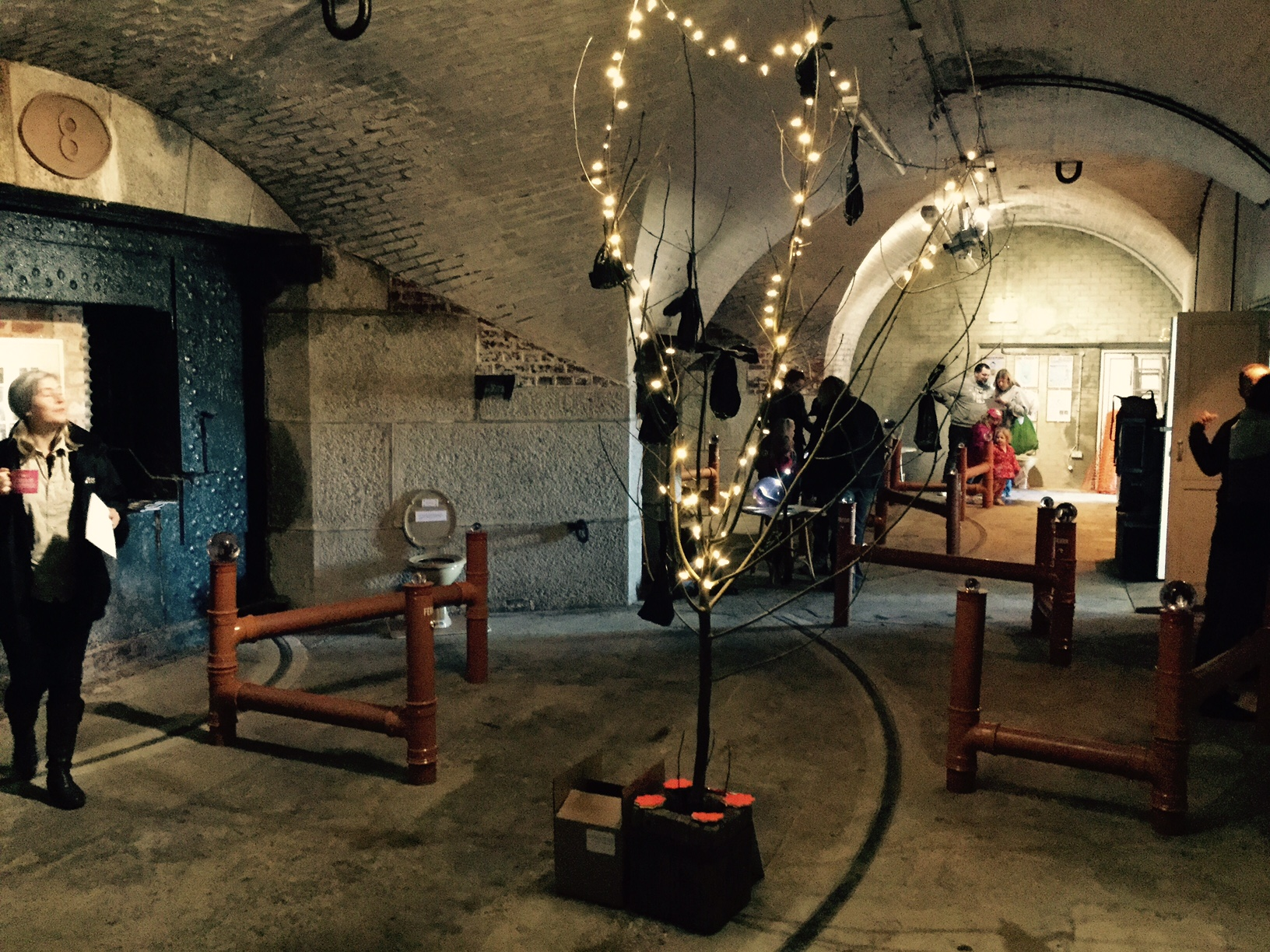 The Poo Tree displayed in The National Poo Museum's first exhibition, at Sandown Zoo, Isle of Wight, posed a question for visitors: why do dog walkers hand poo in trees?